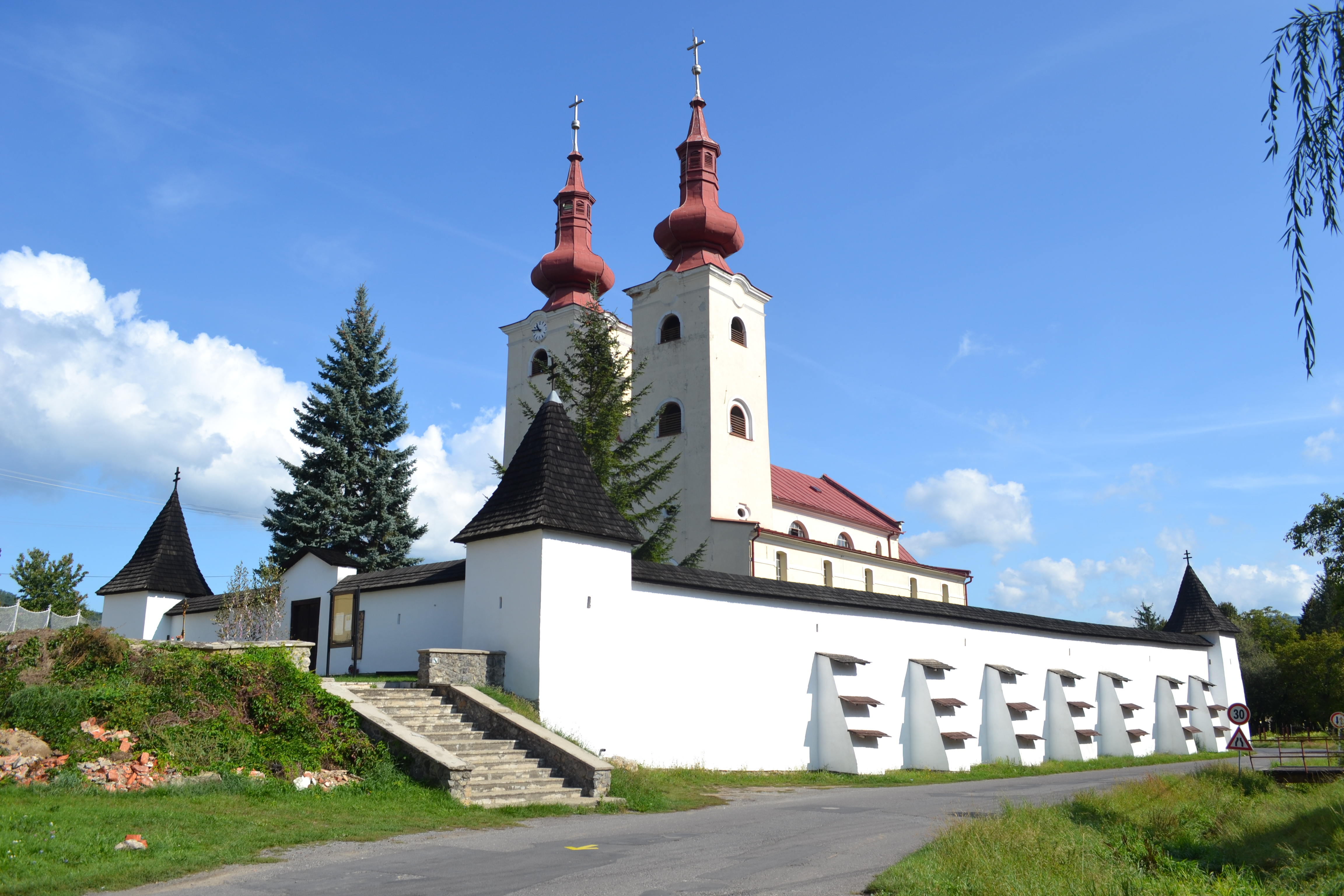 Church and the fortification in Divín